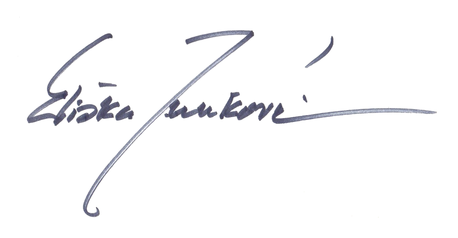 signature of Eliška Junková